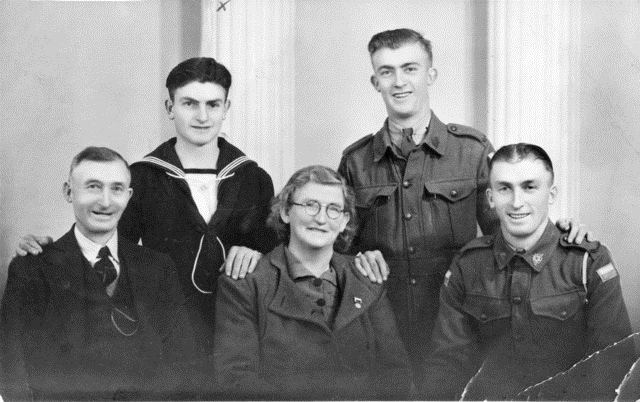 AWM caption: Studio portrait of the Sheean family. Identified left to right, back row: H1617 Ordinary Seaman Edward (Teddy) Sheean RAN; 6849 (VX51790) Private Frederick Sheean. James Sheean; Mary Sheean and VX52321 Private William Henry Sheean. Teddy Sheean was killed on 1 December 1942 during an attack by Japanese aircraft which sank HMAS Armidale. After the order to 'abandon ship' OS Teddy Sheean, although twice wounded, stayed at his post at the aft Oerlikon gun bringing down an enemy bomber. He was still firing when the ship sank. For his part in this action he was posthumously awarded a 'mention in despatches'.